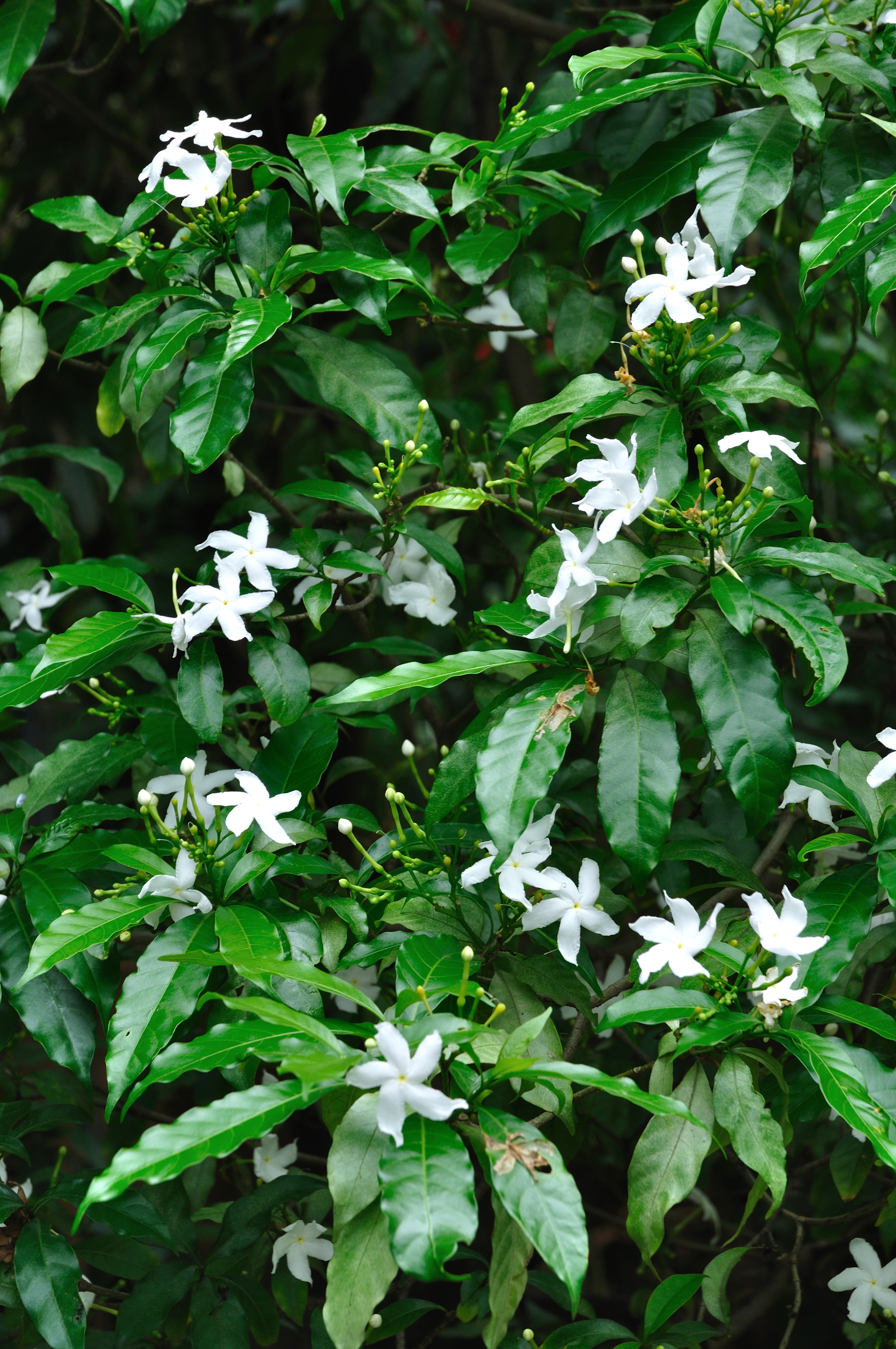 Common name: Crape jasmine, Moonbeam, Carnation of India. Hindi: Chandni. Kannada: Nandi Battalu. Tamil: Nandiar vattai. Gujarati: Sagar. Marathi: Ananta, Tagar. Bengali: Tagar. Botanical name: Tabernaemontana divaricata Family: Apocynaceae (Oleander family) Synonyms: Ervatamia divaricata, Nerium coronarium Crape jasmine, a shrub very common in India, generally grows to a height of 6 ft. However, it can also grow into a small tree with a thin, crooked stem. Like many members of the Oleander family, stems exude a milky latex when broken. The large shiny leaves are deep green and are 6 or more inches in length and about 2 inches in width. Crape jasmine blooms in spring but flowers appear sporatically all year. The waxy blossoms are white five-petaled pinwheels that are borne in small clusters on the stem tips. Flowers are commonly used in pooja in north and south India.